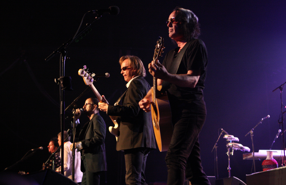 Ringo Starr and his All-Starr Band play the Hordern Pavilion in Sydney, Australia.